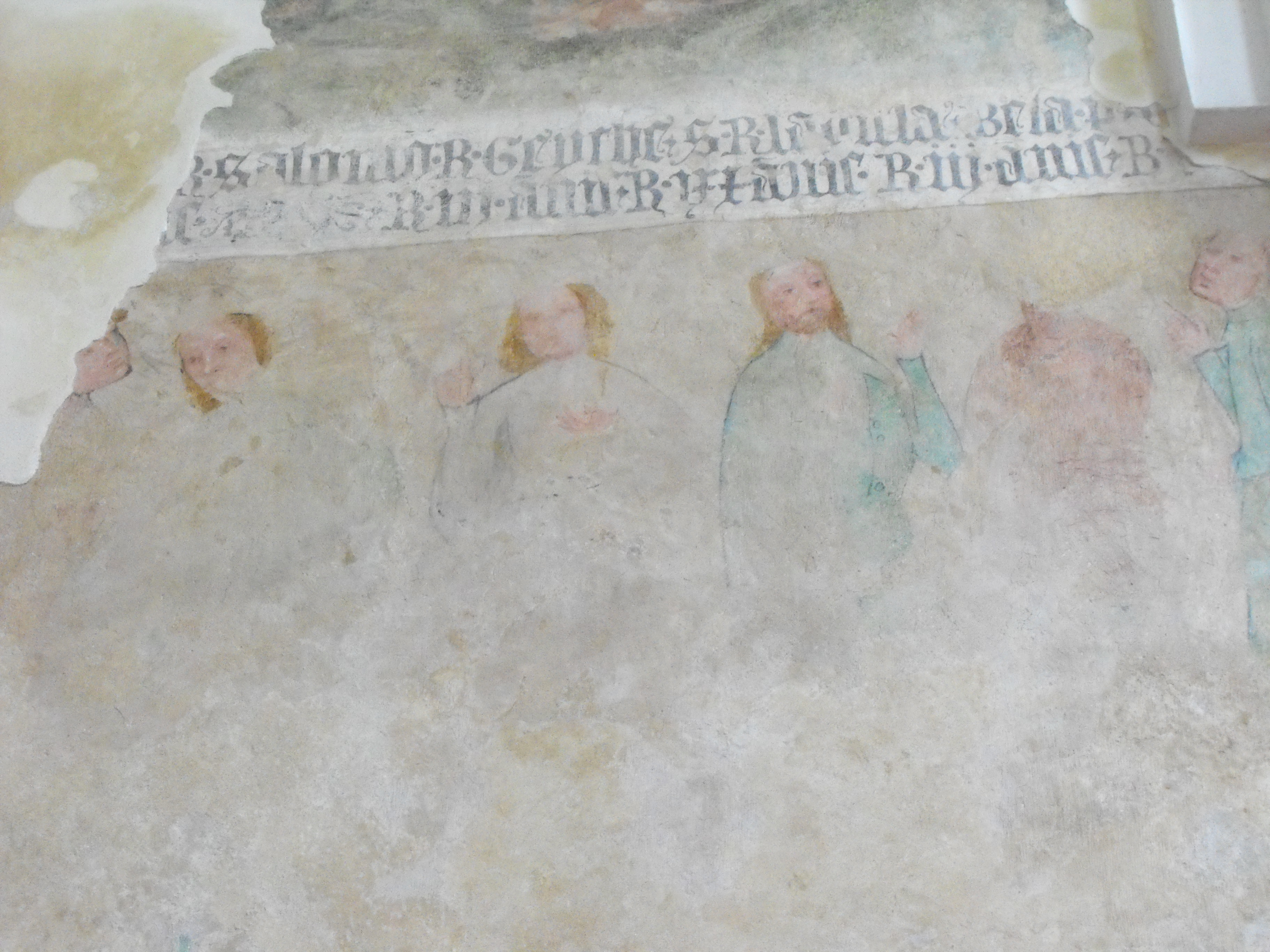 Napis nad freskou